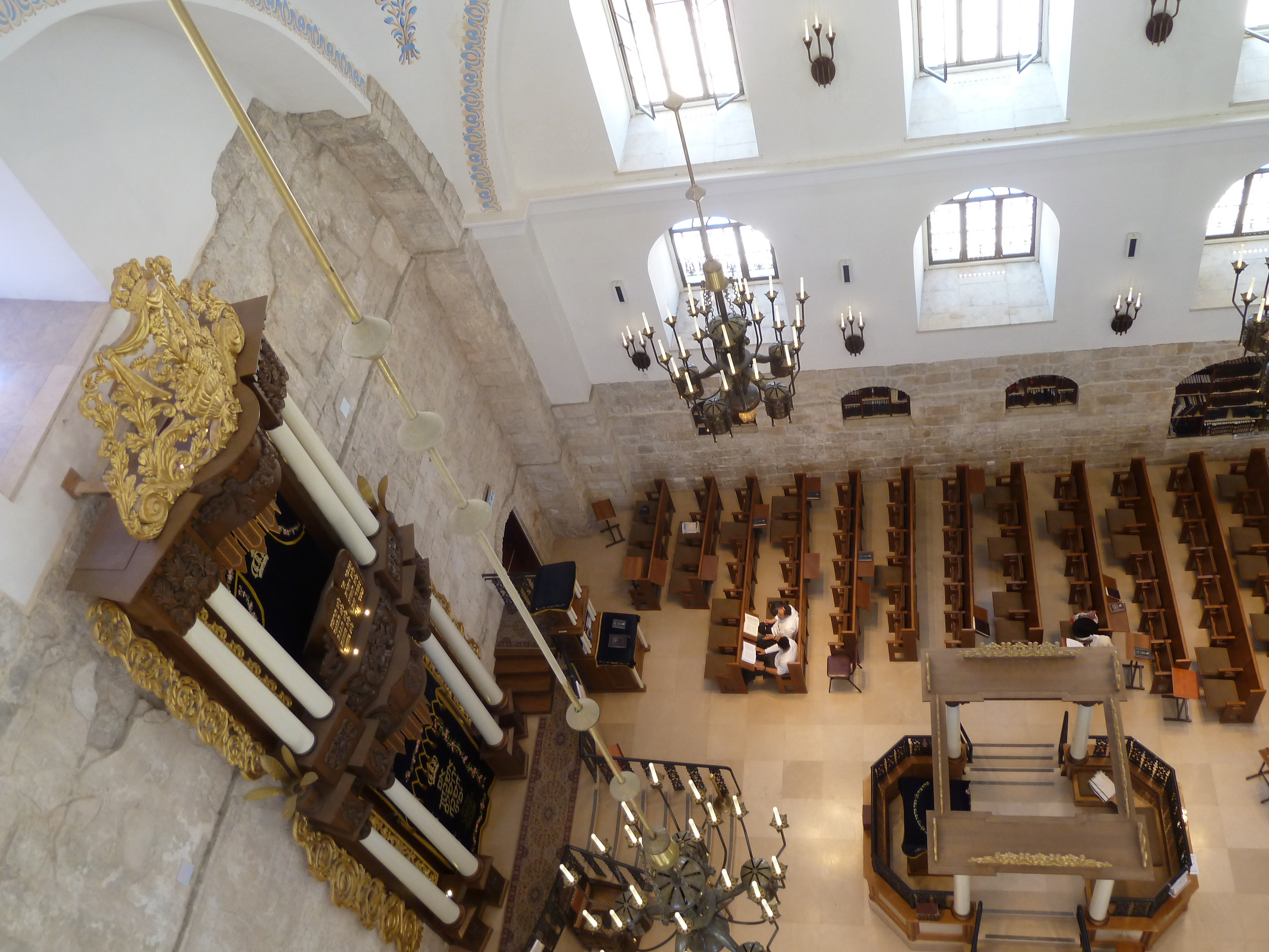 Hurva Synagogue interior, Jewish quarter, Old City Walls in Jerusalem